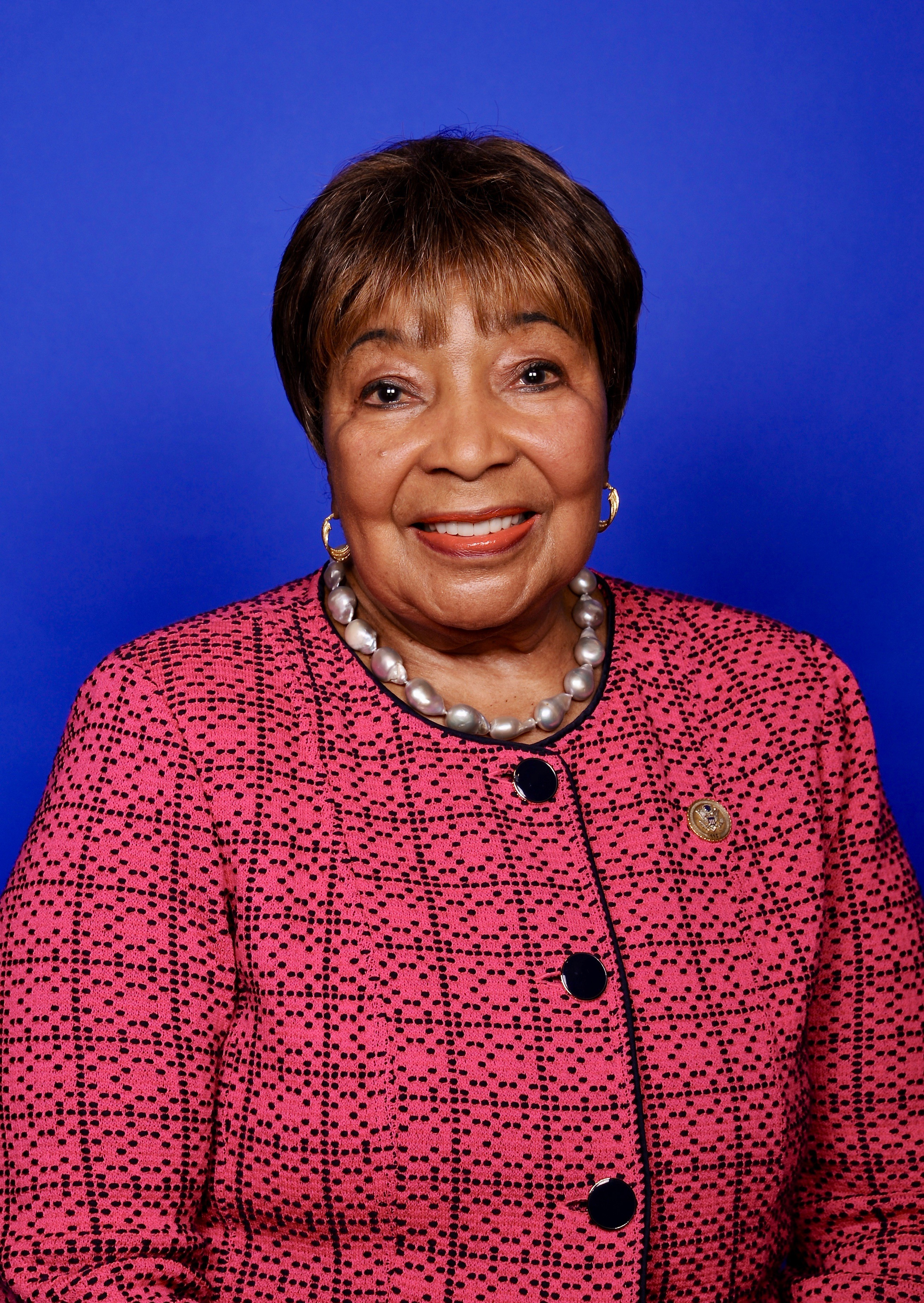 Portrait of U.S. Rep. Eddie Bernice Johnson (TX)